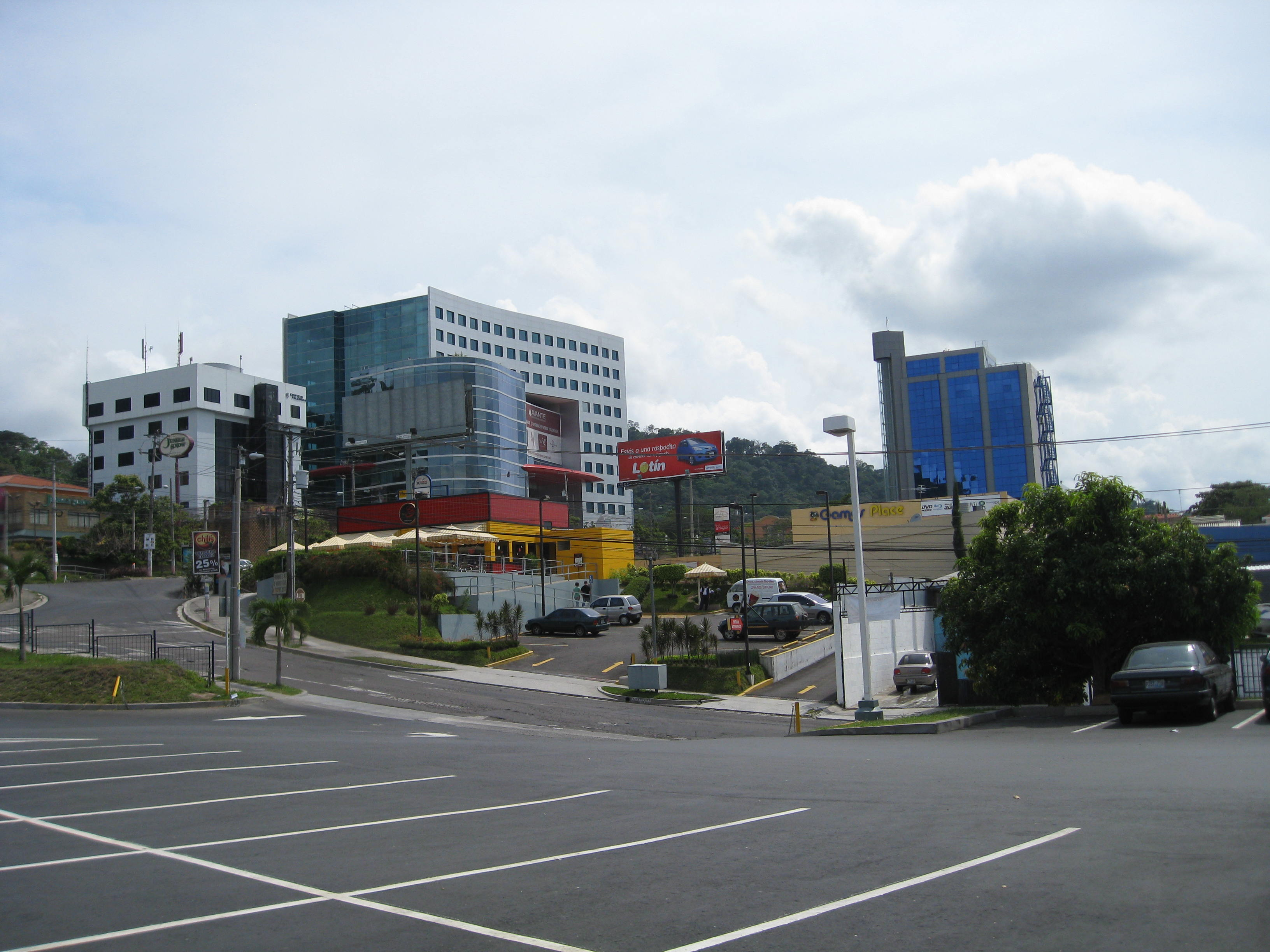 View to the Economic Zone of Antiguo Cuscatlan from Pricesmart Parking